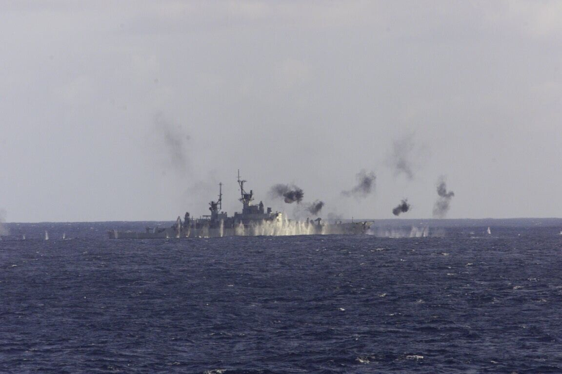 On 31 May 2001 the decommissioned U.S. Navy guided missile cruiser Reeves (CG-24) becomes a target for bombs dropped by Royal Australian Air Force General Dynamic F-111Cs, missiles from U.S. Naval warships and shells from Royal Australian Naval vessels as part of a SINKEX off the coast of Queensland, Australia.